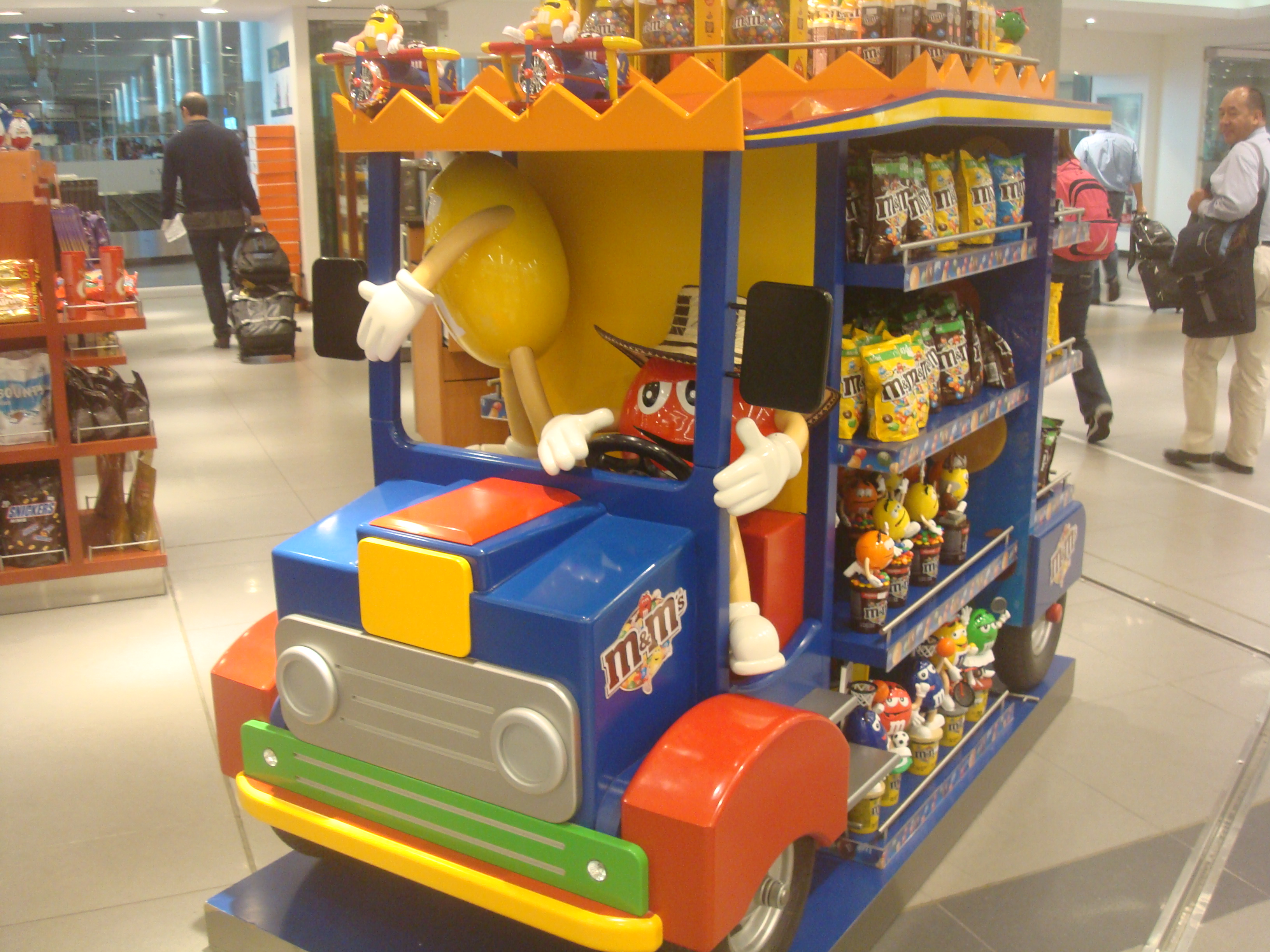 Red and Yellow M&M's at Bogotá's El Dorado International Airport with Colombian sombrero vueltiao and a chiva bus